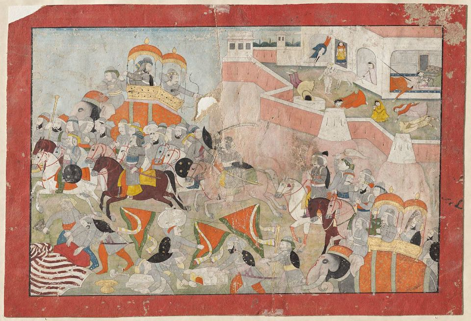 Sultan Alau'd Din put to Flight; Women of Ranthambhor commit Jauhar Indian, Pahari, about 1825 The Family of Nainsukh, Kangra style, Punjab Hills, Northern India Dimensions Overall: 22.2 x 32.6 cm (8 3/4 x 12 13/16 in.) Image: 19.2 x 29 cm (7 9/16 x 11 7/16 in.) Medium or Technique Opaque watercolor on paper